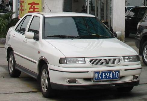 Chery Windcloud -- cropped from CC-BY-SA image Chery Windcloud.jpg